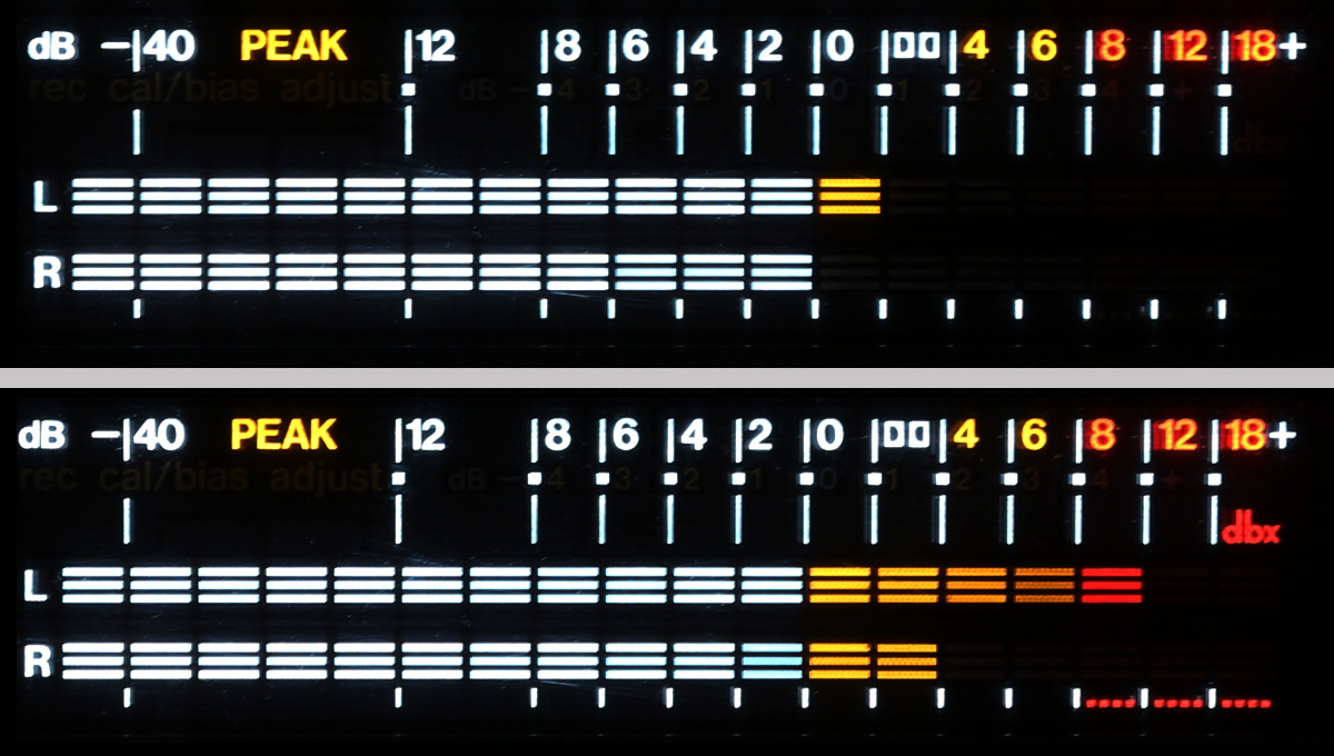 Level meter of the Technics RS-B100 cassette deck. Playback mode without (top) and with (bottom) dbx encoder engaged